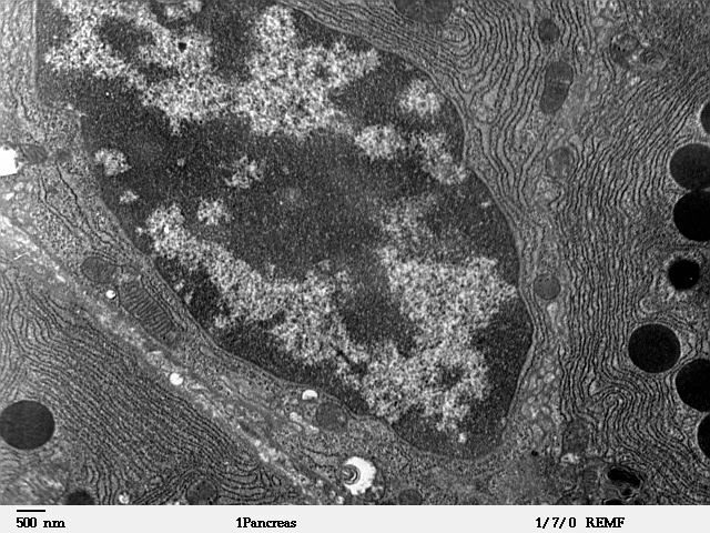 Transmission electron microscope image of a thin section cut through an area of mammalian pancreatic tissue. Image shows pancreatic acinar cells, with nucleus, mitochondria, rough endoplasmic reticulum and zymogen granules. JEOL 100CX TEM